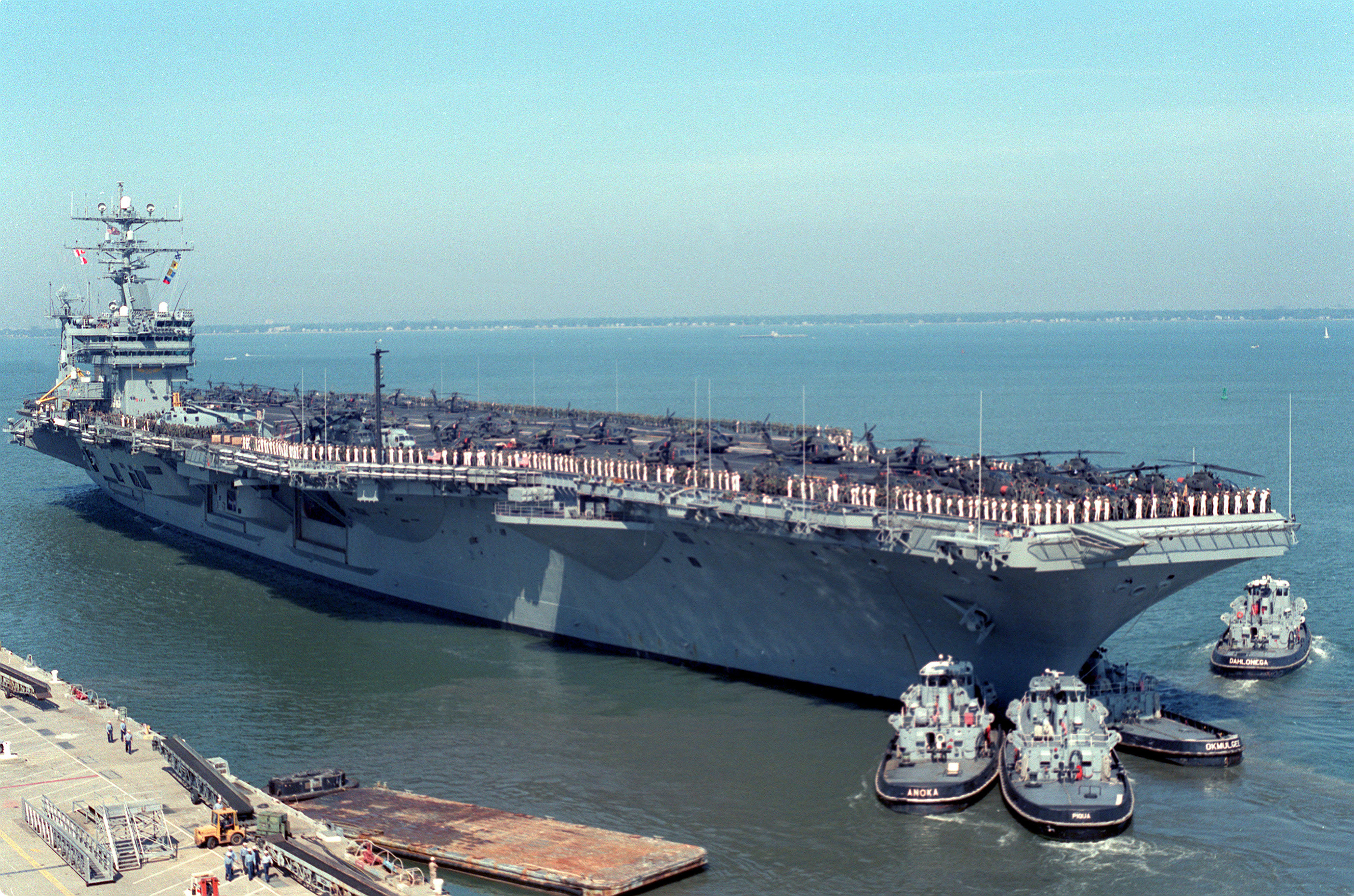 U.S. Army Sikorsky UH-60A Black Hawk, Bell AH-1 Cobra and Bell OH-58 Kiowa helicopters on deck of the U.S. Navy aircraft carrier USS Dwight D. Eisenhower (CVN-69) at Norfolk, Virginia (USA). Dwight D. Eisenhower disembarked its Carrier Air Wing 3 (CVW-3) at Norfolk and loaded 2.000 U.S. Army soldiers and 58 helicopters of the 10th Mountain Division to take part in "Operation Uphold Democracy" in Haiti. The carrier departed Norfolk on 14 September 1994 and reached the waters off Haiti three days later. Following successful negotiations with Haiti's military junta, the troops were landed without resistance on 19 September.